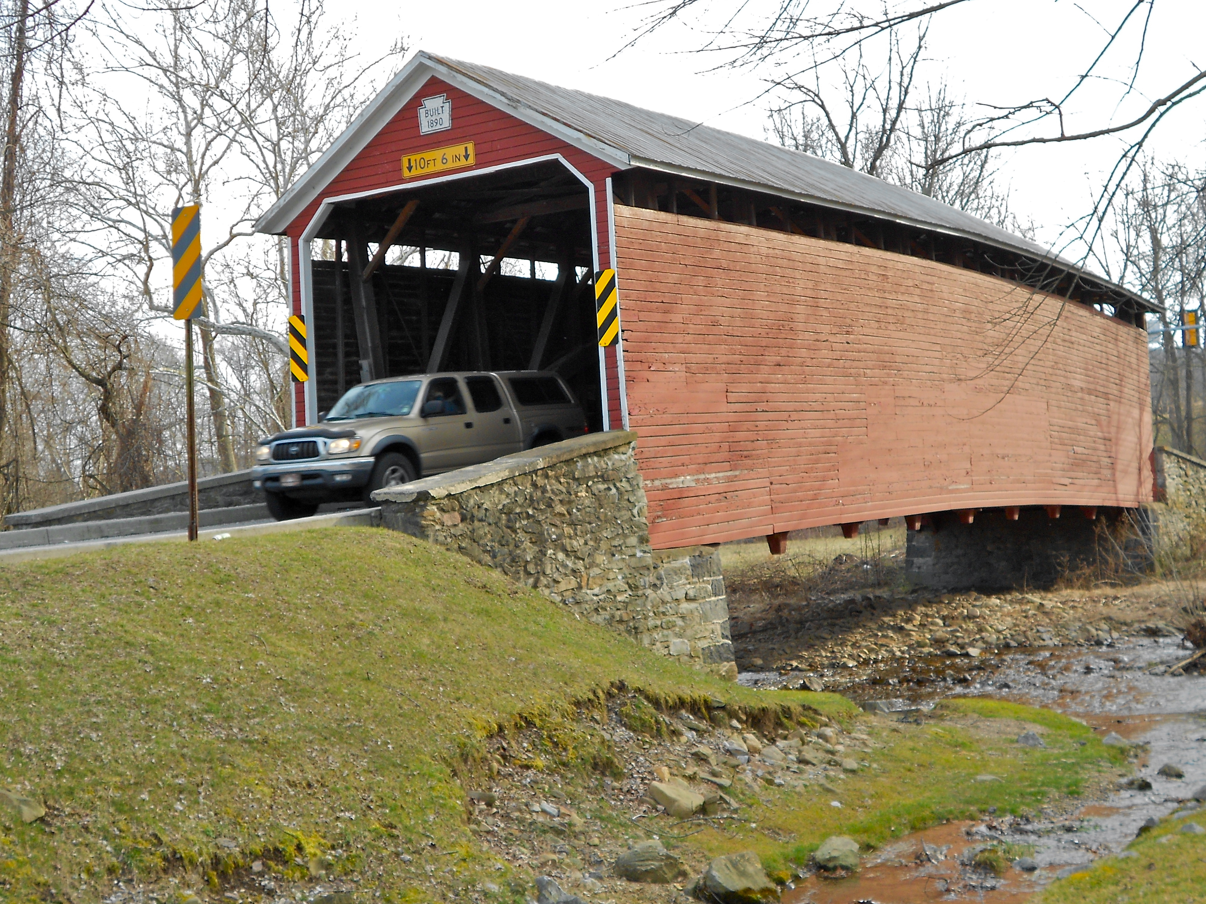 Jacks Mountain Covered Bridge on the NRHP since August 25, 1980. Southwest of Fairfield on Legislative Route 01053, near Iron Springs in Carroll Valley and Hamiltonban Township, Adams County, Pennsylvania